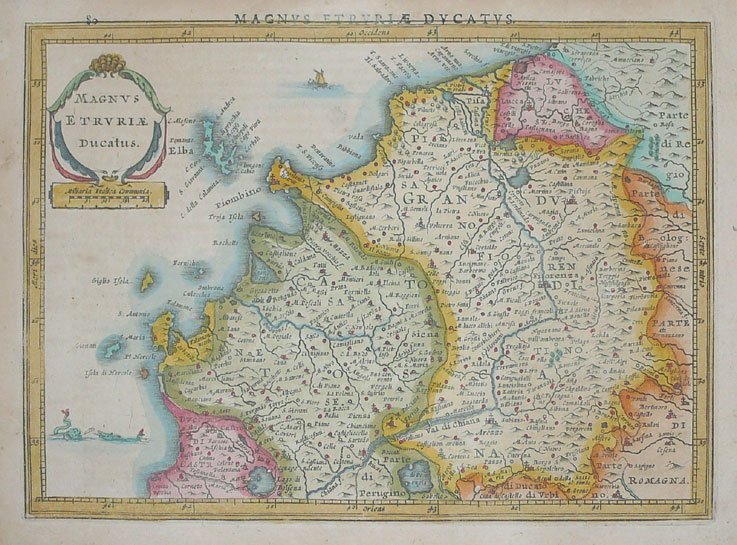 Map of the Grand Duchy of Tuscany in circa 1627 by Jodocus Hondius